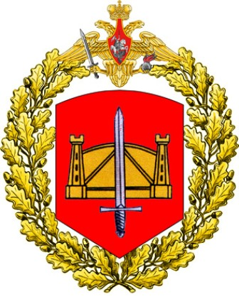 emblem 58th Army (Russian Federation)